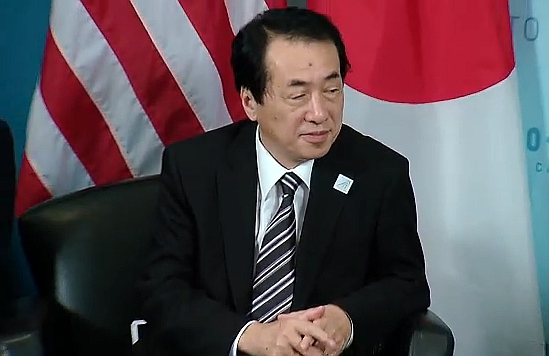 Naoto Kan, Prime Minister, and Barack Obama, President, spoke to the press after meeting at the 2010 G-20 Toronto summit in Toronto City, Ontario Province on June 27, 2010.